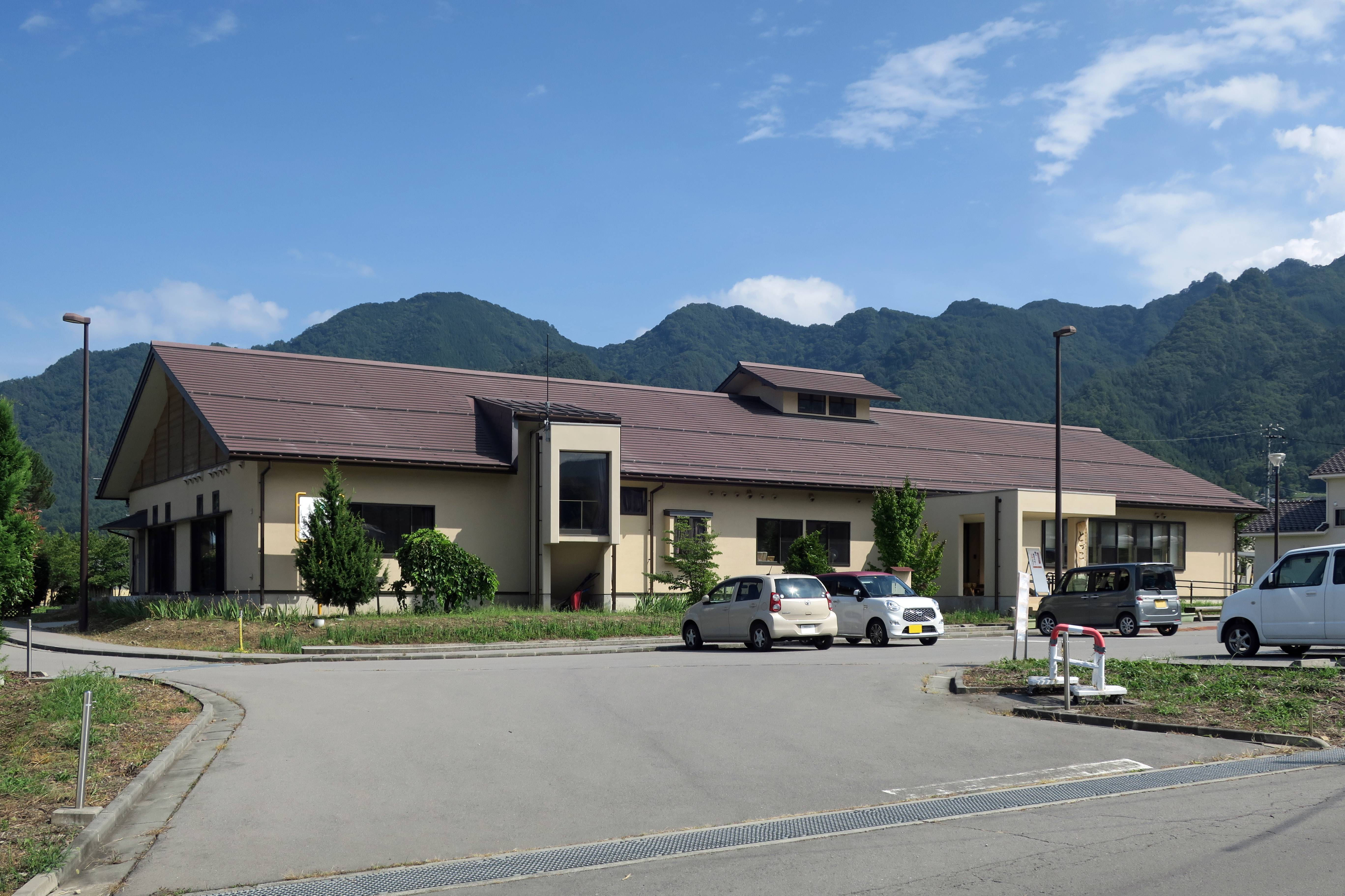 Tokko kan (Ueda, Nagano).